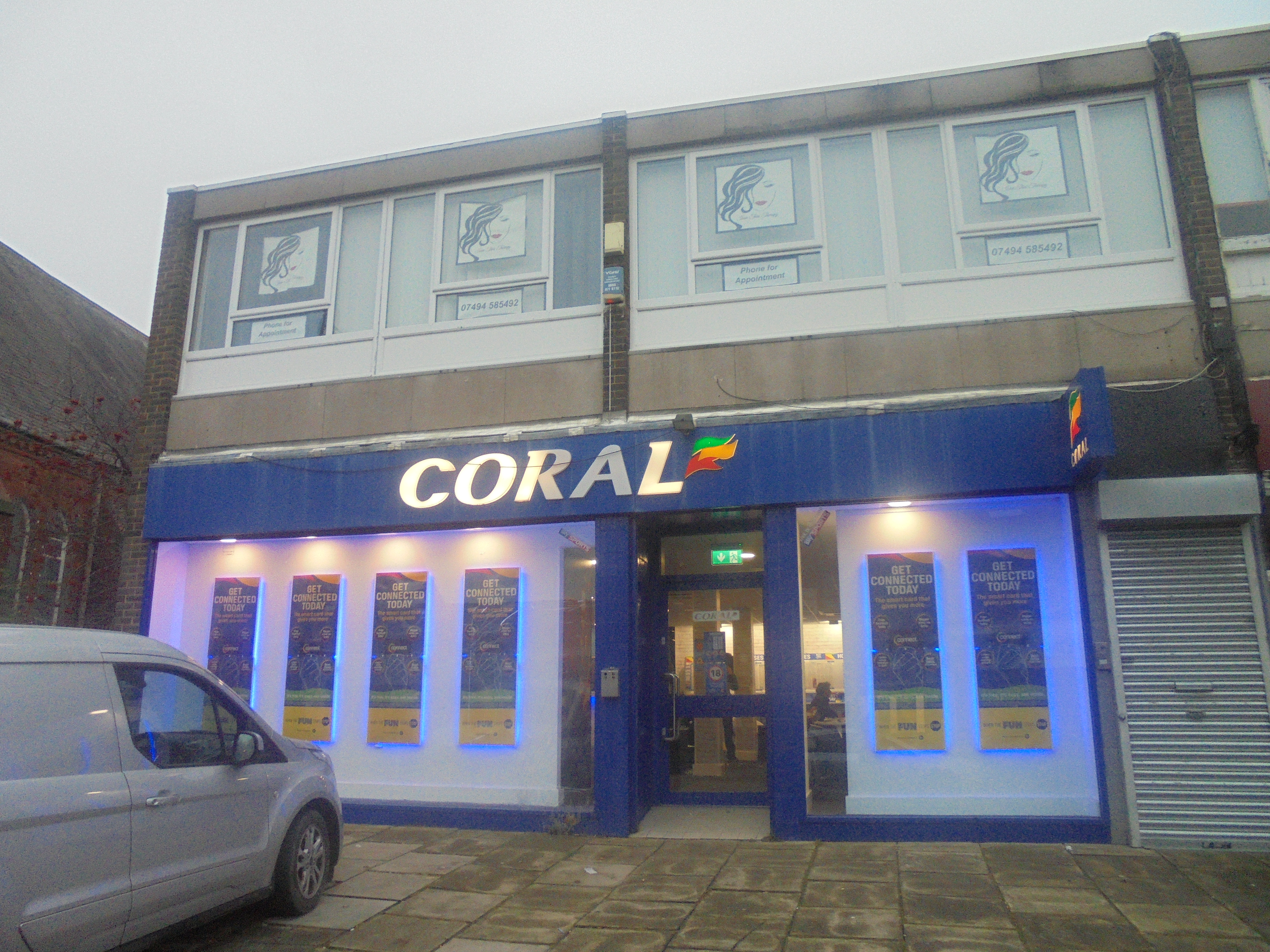 Coral, Austhorpe Road, Cross Gates, Leeds, West Yorkshire. Taken on the afternoon of Sunday the 24th of November 2019.